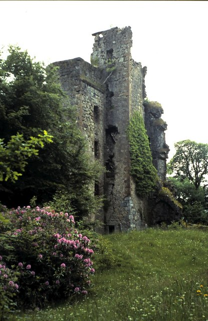 Invergarry Castle In clan days this was the principal stronghold of the MacDonnell's of Glengarry. The castle was built in a stategic location overlooking Loch Oich and guarding routes to the west via Glen Garry. It was built on an outcrop known as Creagan an Fhithich, the Raven's Rock, and the clan crest is a raven perched on a rock. The castle has featured in many clan and national conflicts and been destroyed several times. The last most conclusively in 1750 following the 1745 Jacobite rising. As shown in the photo it was in a very dangerous state but is presently undergoing work to stabilise the stonework.